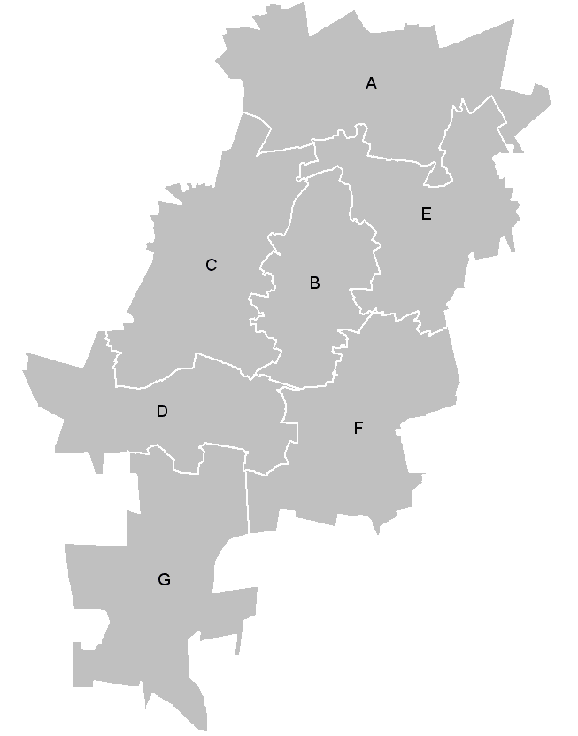 Created using shapefile info from the City of Johannesburg. New regions of Johannesburg (2006-).